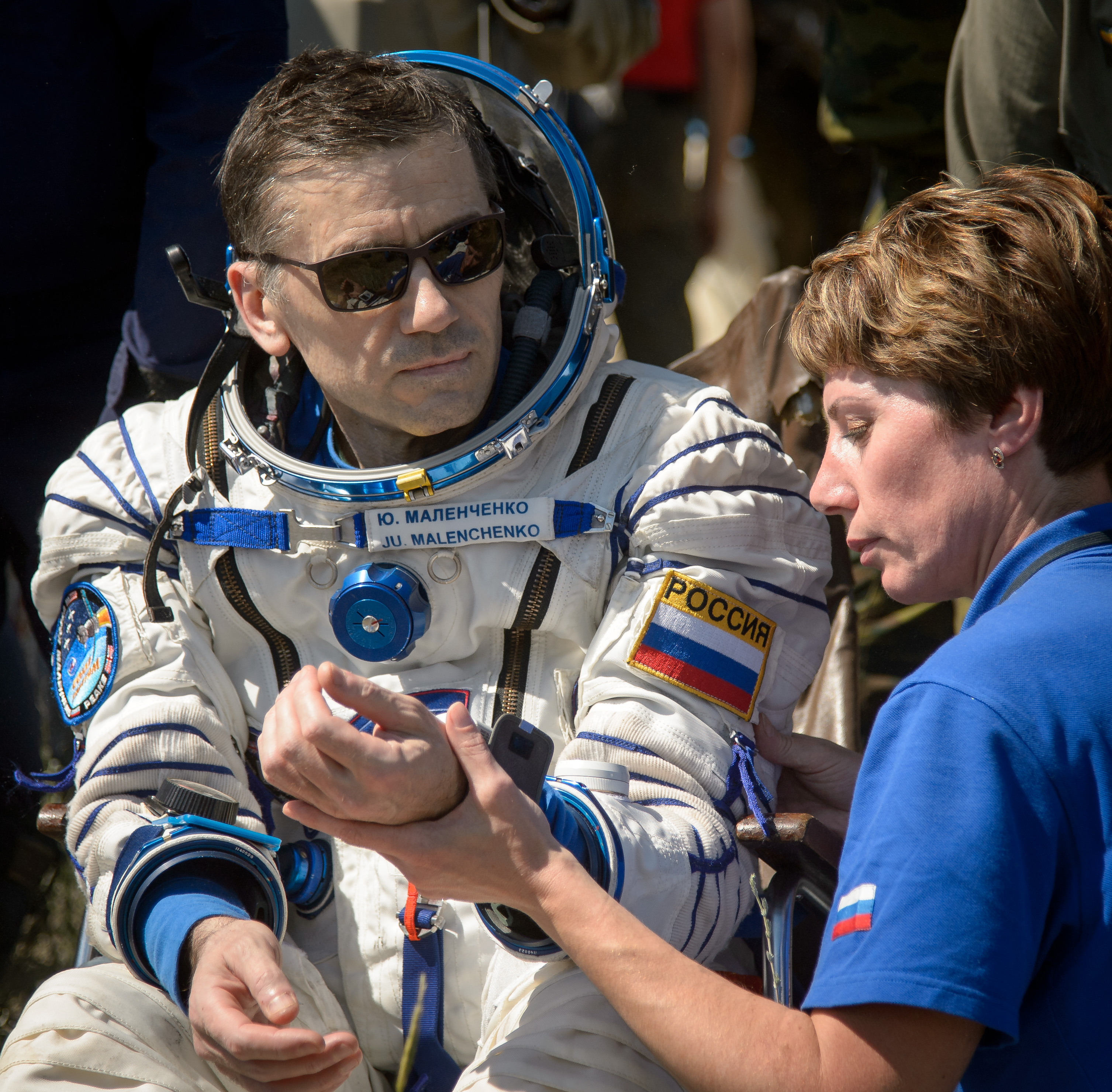 Yuri Malenchenko of Roscosmos rests in a chair outside the Soyuz TMA-19M spacecraft just minutes after he and Tim Kopra of NASA and Tim Peake of the European Space Agency landed in a remote area near the town of Zhezkazgan, Kazakhstan on Saturday, June 18, 2016. Kopra, Peake, and Malenchenko are returning after six months in space where they served as members of the Expedition 46 and 47 crews onboard the International Space Station.